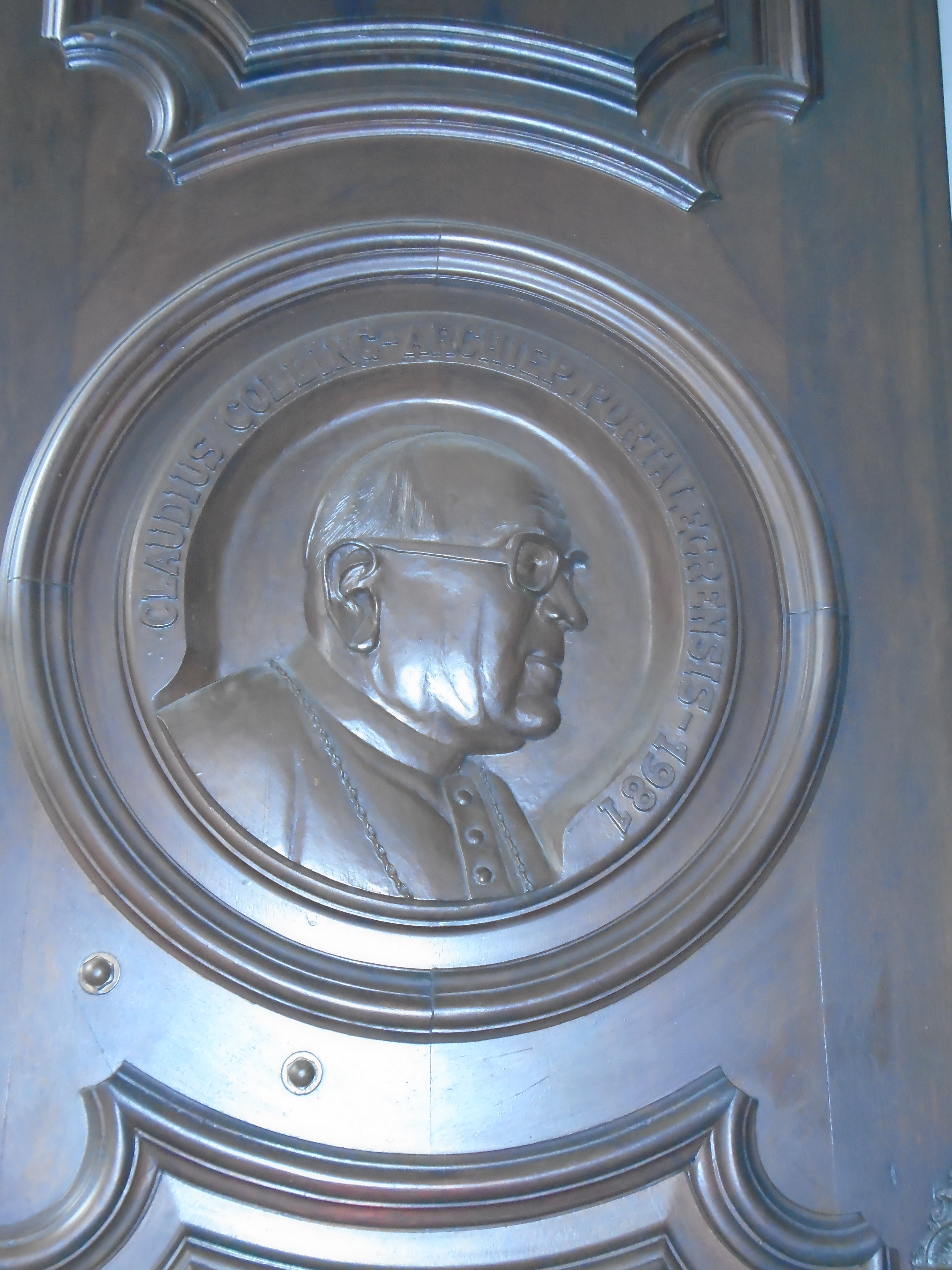 Porto Alegre Metropolitan Cathedral